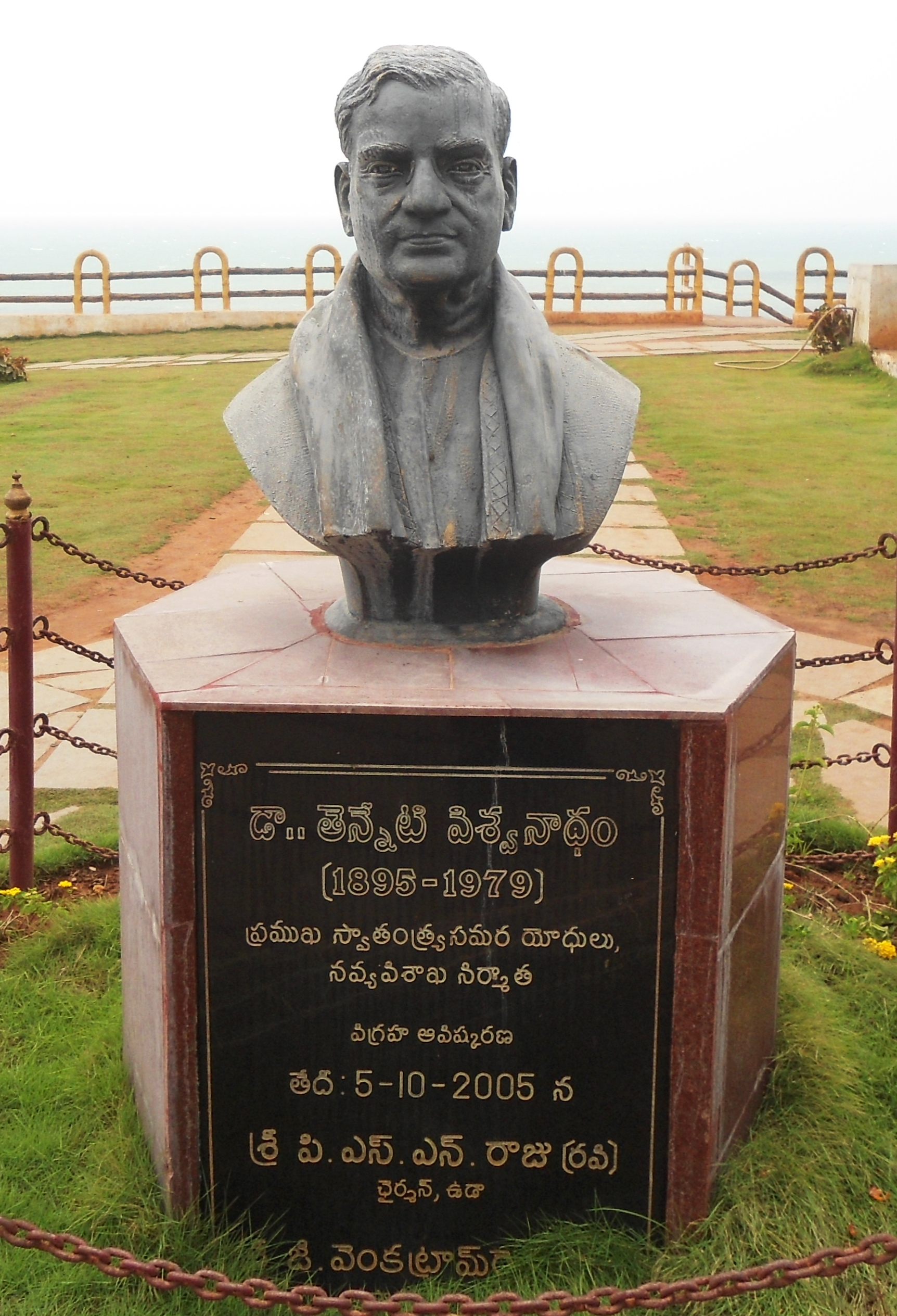 Statue of Tenneti Vishwanatham at Tenneti beach park in Visakhapatnam